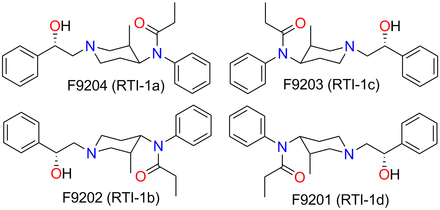 Image was also formerly tagged as PD-self